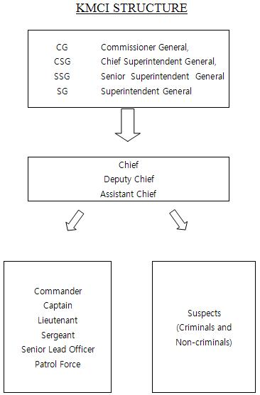 The fundametal structure of KMCI